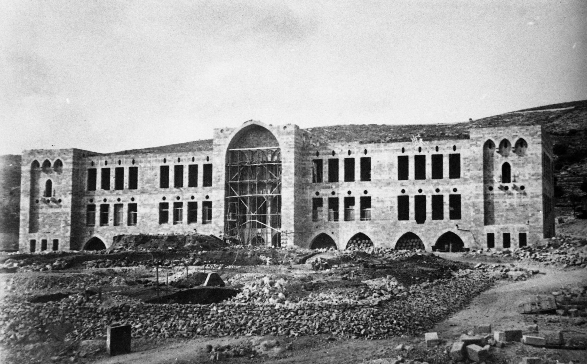 Building of the Technion - Israel Institute of Technology in Haifa.